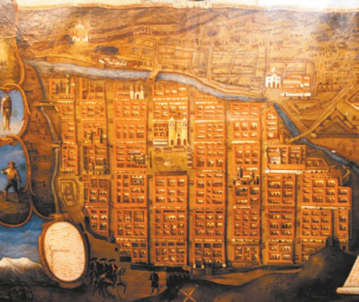 The plan shows to the city of La Paz surrounded of natives that Túpac led Katari in 1781.